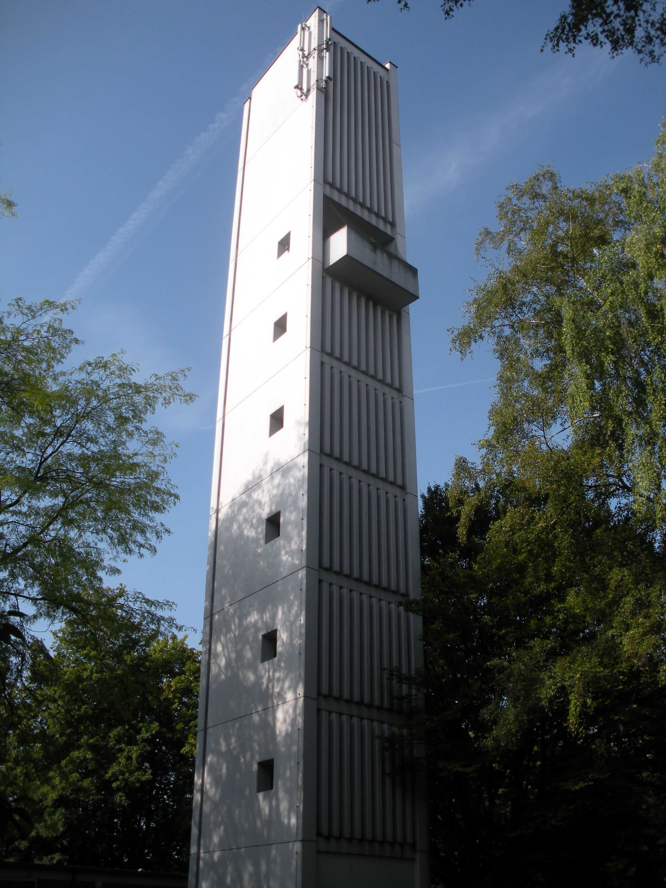 Protestant Church in Stuttgart-Mönchfeld, Tower